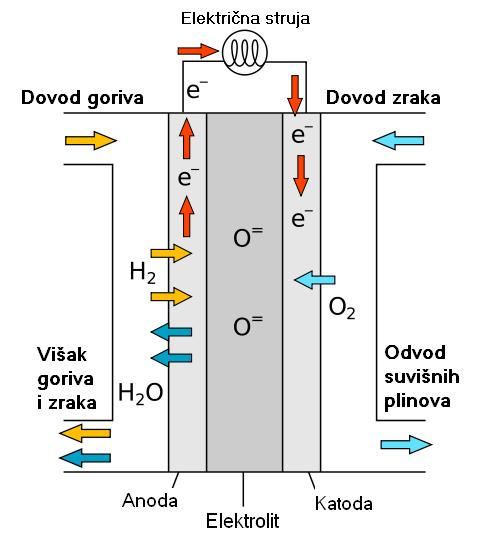 Shema SOFC